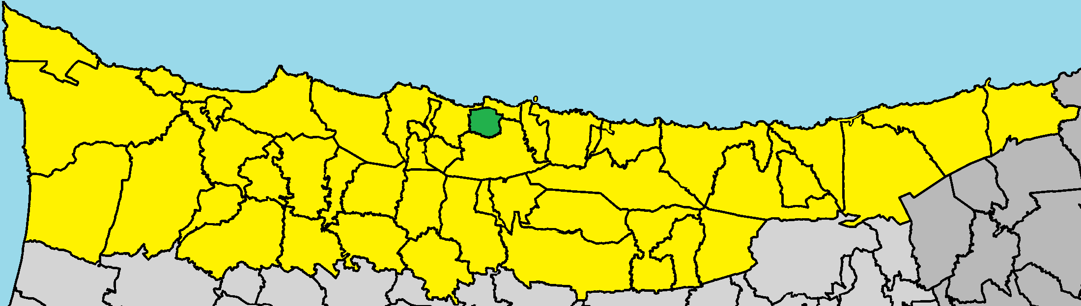 Trimithi in Kyrenia District (de jure).